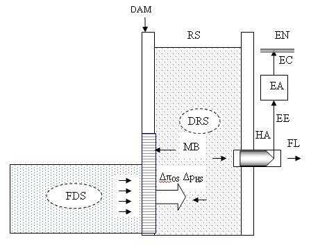 Molecular power 29. Block diagram of a basic hydroelectric power plant on pressure-retarded osmosis